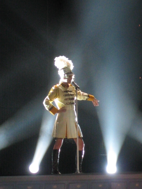 Taylor Swift Fearless Tour 2009 Jacksonville Fl Jacksonville Veterans Memorial Arena